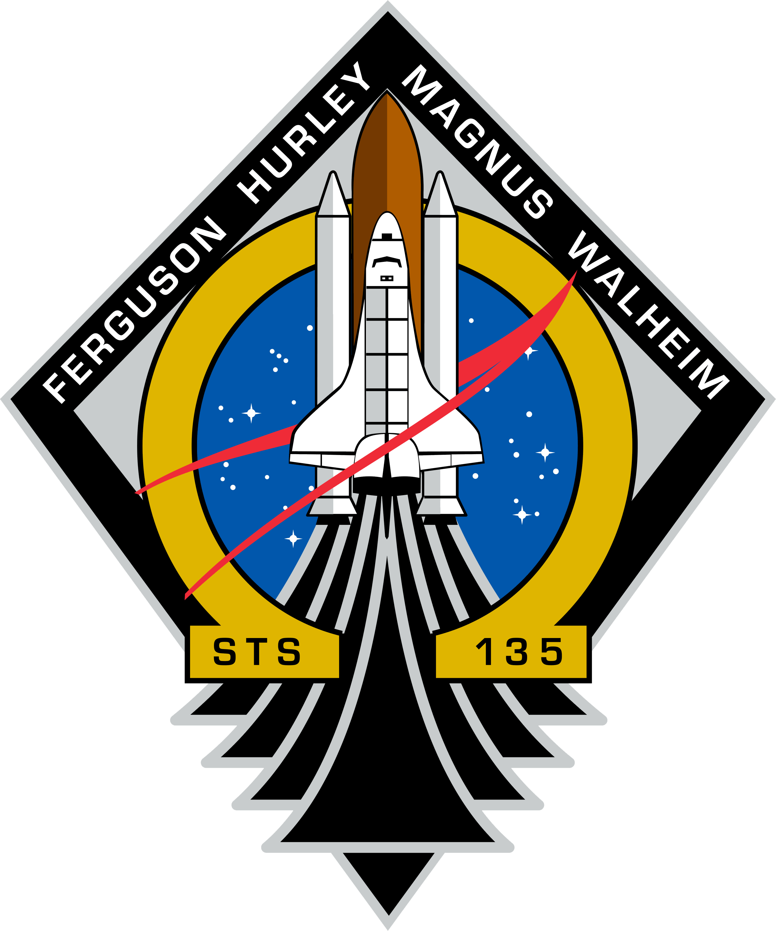 The STS-135 patch represents the space shuttle Atlantis embarking on its mission to resupply the International Space Station. Atlantis is centered over elements of the NASA emblem depicting how the space shuttle has been at the heart of NASA for the last 30 years. It also pays tribute to the entire NASA and contractor team that made possible all the incredible accomplishments of the space shuttle. Omega, the last letter in the Greek alphabet, recognizes this mission as the last flight of the Space Shuttle Program.